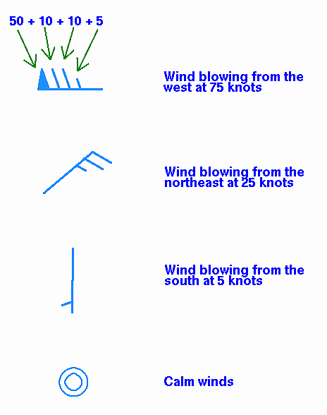 Hydrometeorological Prediction Center Camp Springs, MD